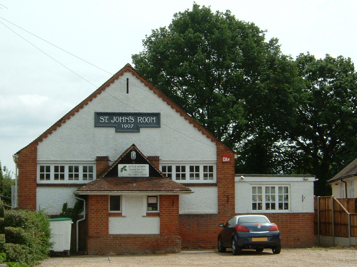 St Johns Hall, Hedge End